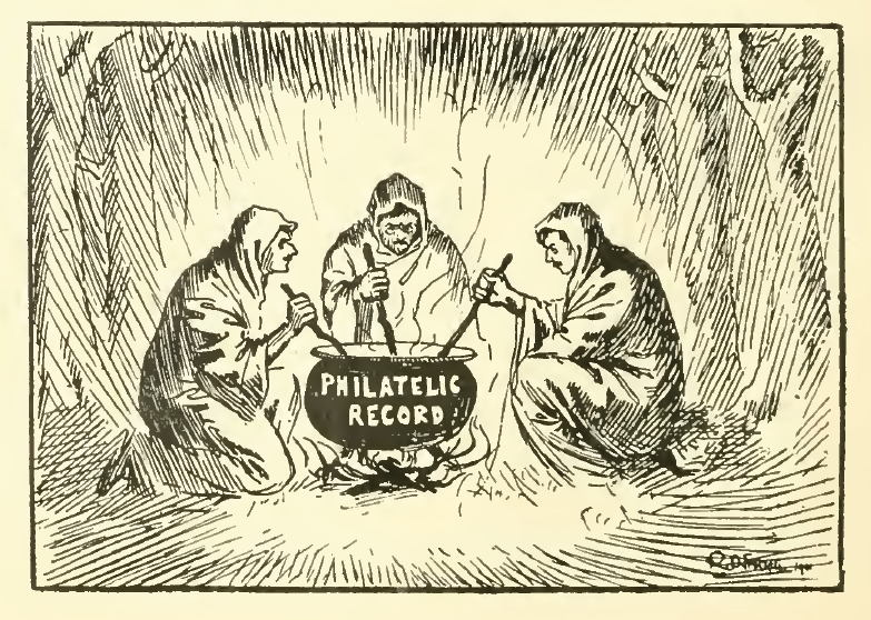 The Philatelic Record staff as imagined by a reader.